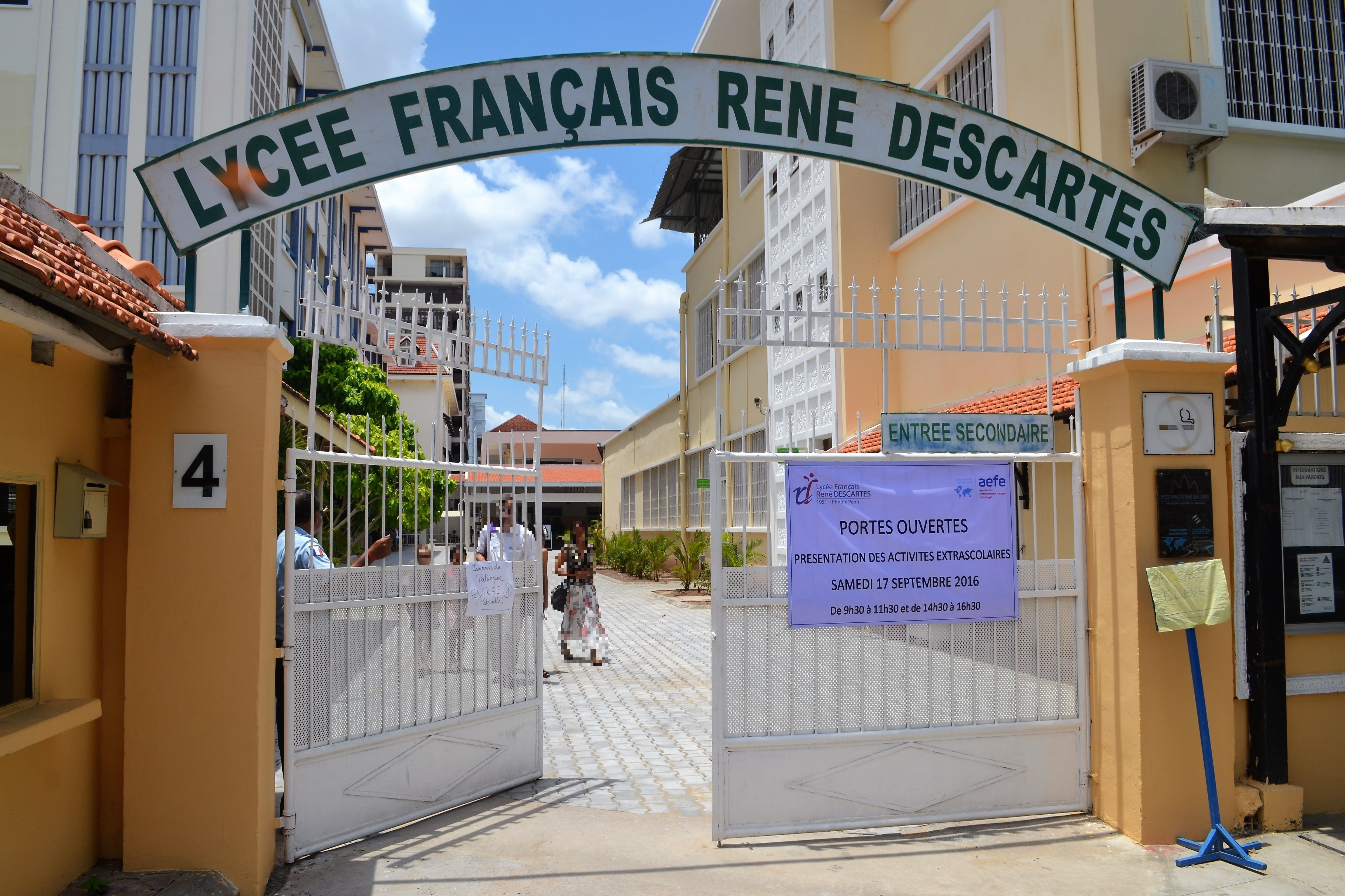 Lycée français René Descartes de Phnom Penh, secondary school entrance